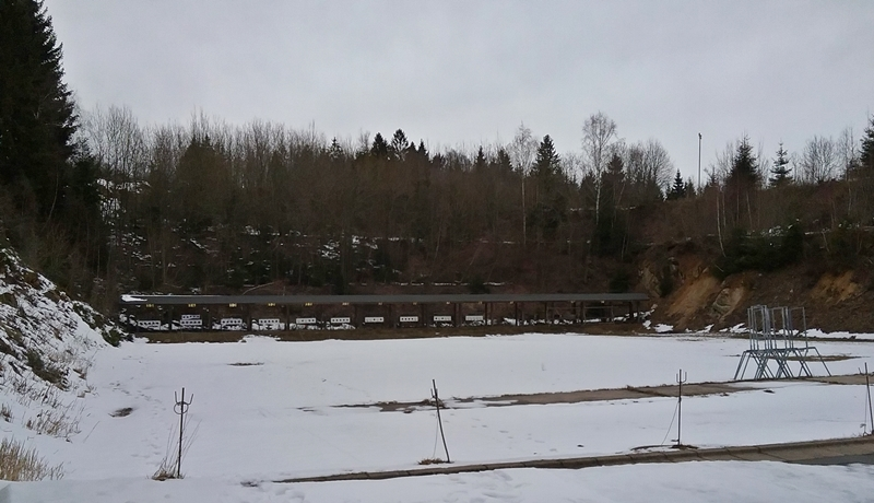 Biathlon shooting range on the premises of the Fichtelberg roller ski track